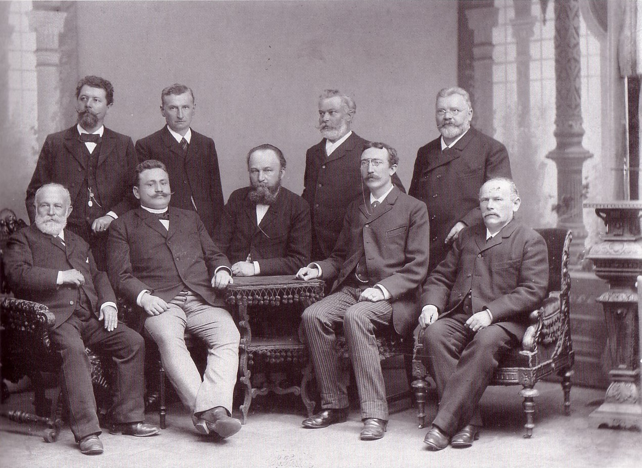 The Gera city council ca. 1893: Mayor Kurt Albin Lade, called Ruick (center) and councillors Dr Lentze, Ruckdeschel, Görner, Fröhlich, Sonntag, Haase, Bauer, and Reibestein.